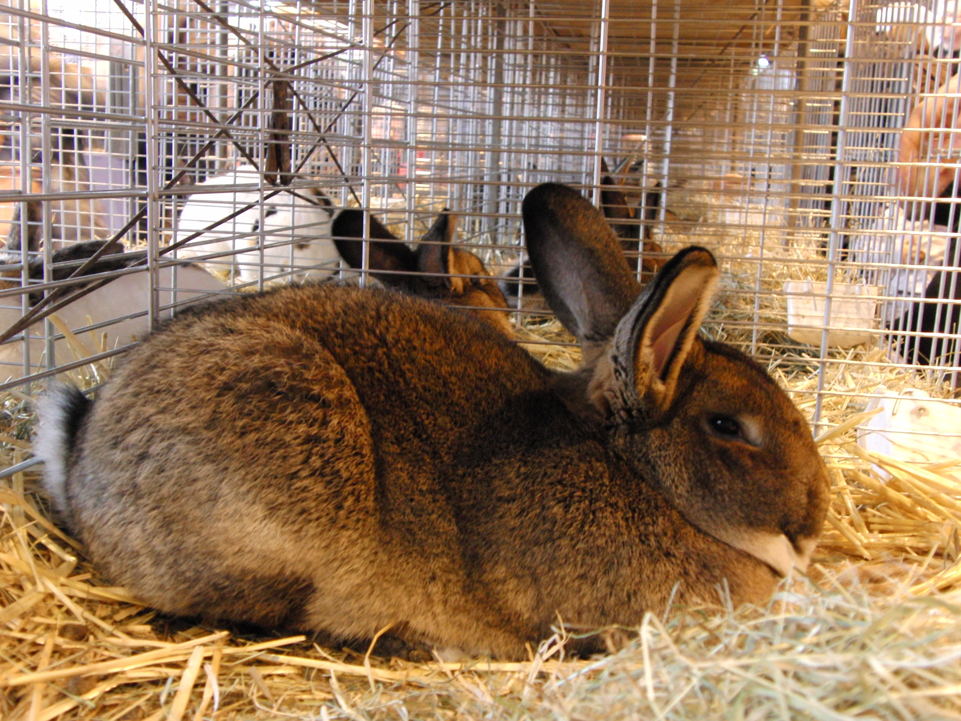 Graue Wiener rabbit - Paris International Agricultural Show 2011, Paris, France